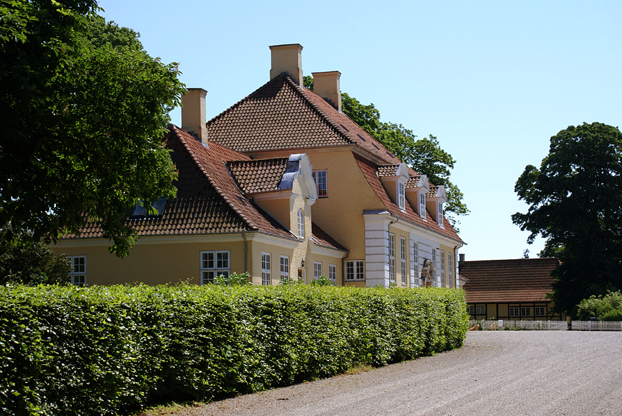 The mansion Lindholm close to Roskilde and Lejre